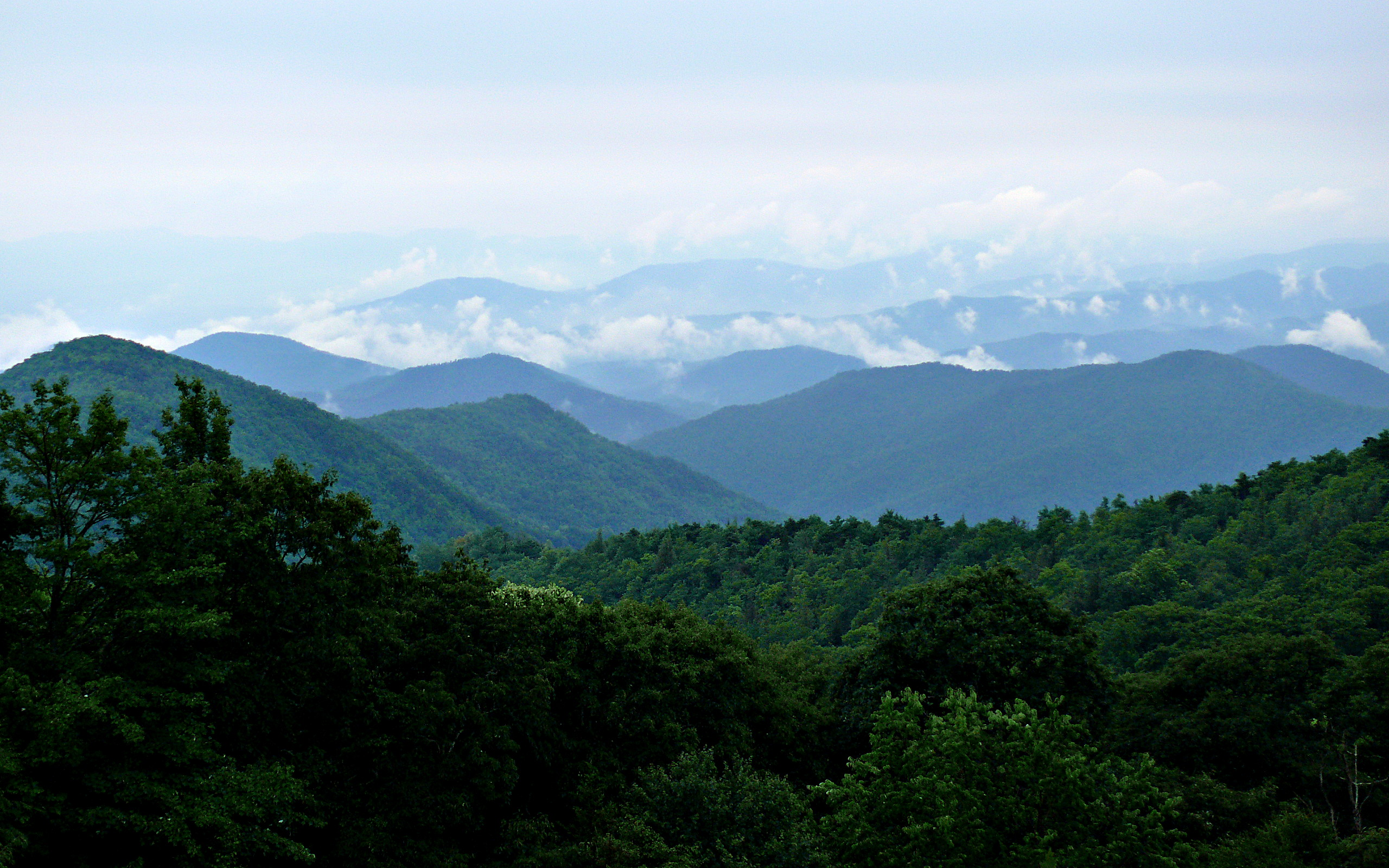 Clouds breaking up after a rainy morning in the Blue Ridge Mountains.Photo taken from the Deep Gap overlook on the Blue Ridge Parkway in western North Carolina, with a Panasonic Lumix DMC-FZ50.